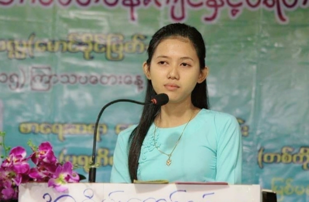 Burma's leading philanthropist Khin Hnin Kyi Thar.